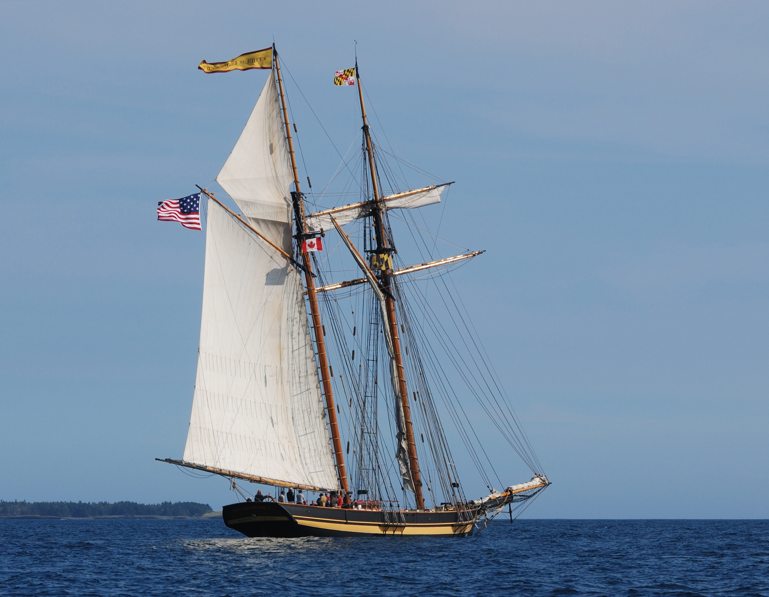 Pride of Baltimore II: seen a few seamiles southeast of Lunenburg